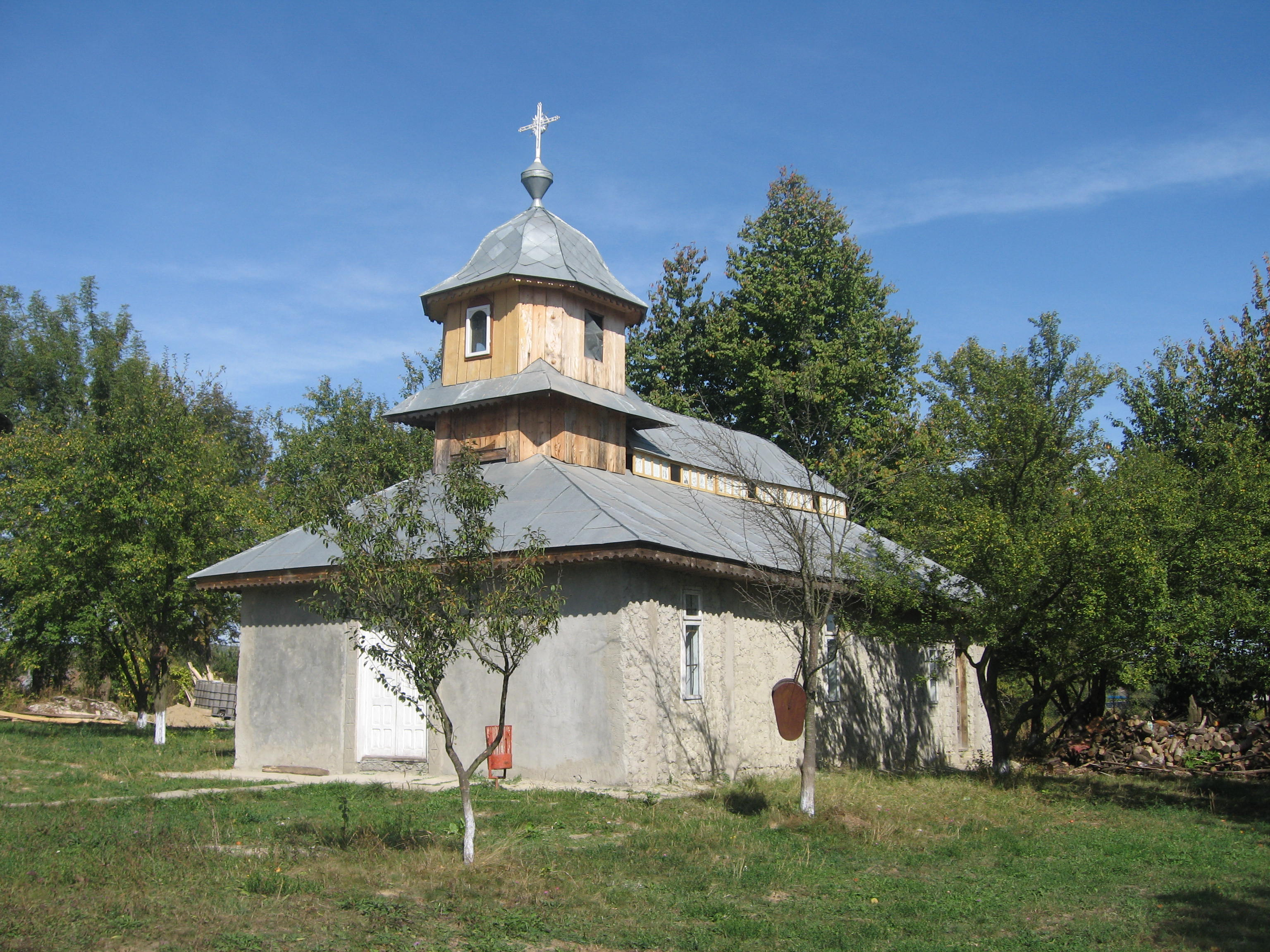 Biserica de lemn Sf. Grigore Boguslavul din Mădârjac